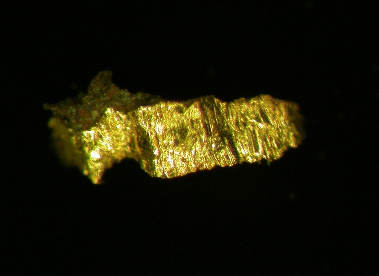 The rare intermetallide Zhanghengite, CuZn, discovered in meteorites, become available now from an old Vietnamese collection. The mineral has nice light-yellow gold-like color and is well visible by unequipped eye. Zhanghengite is accompanied by mixture (alteration rim) of pink zincian (4.3-7.8 mas.% of Zn) native Copper, Cuprite, Hydrozincite, Smithsonite, Malachite and Cerussite. All this located mainly at the back side of the specimen. The specimen size is 1.25x0.62x0.50 mm. Chemical formula of Zhanghengite from exactly this specimen is Cu1.00(Zn0.97Fe0.03)1.00. A geological probe from unspecified "gold" deposit from Northern Vietnam was collected in the late 70th. But all gold-like metal turned out copper-zink alloy and no real gold was detected in the probe. The mineral indeed has very nice gold-like color and is very similar to native gold of AV700 fineness. Completely analyzed specimen.